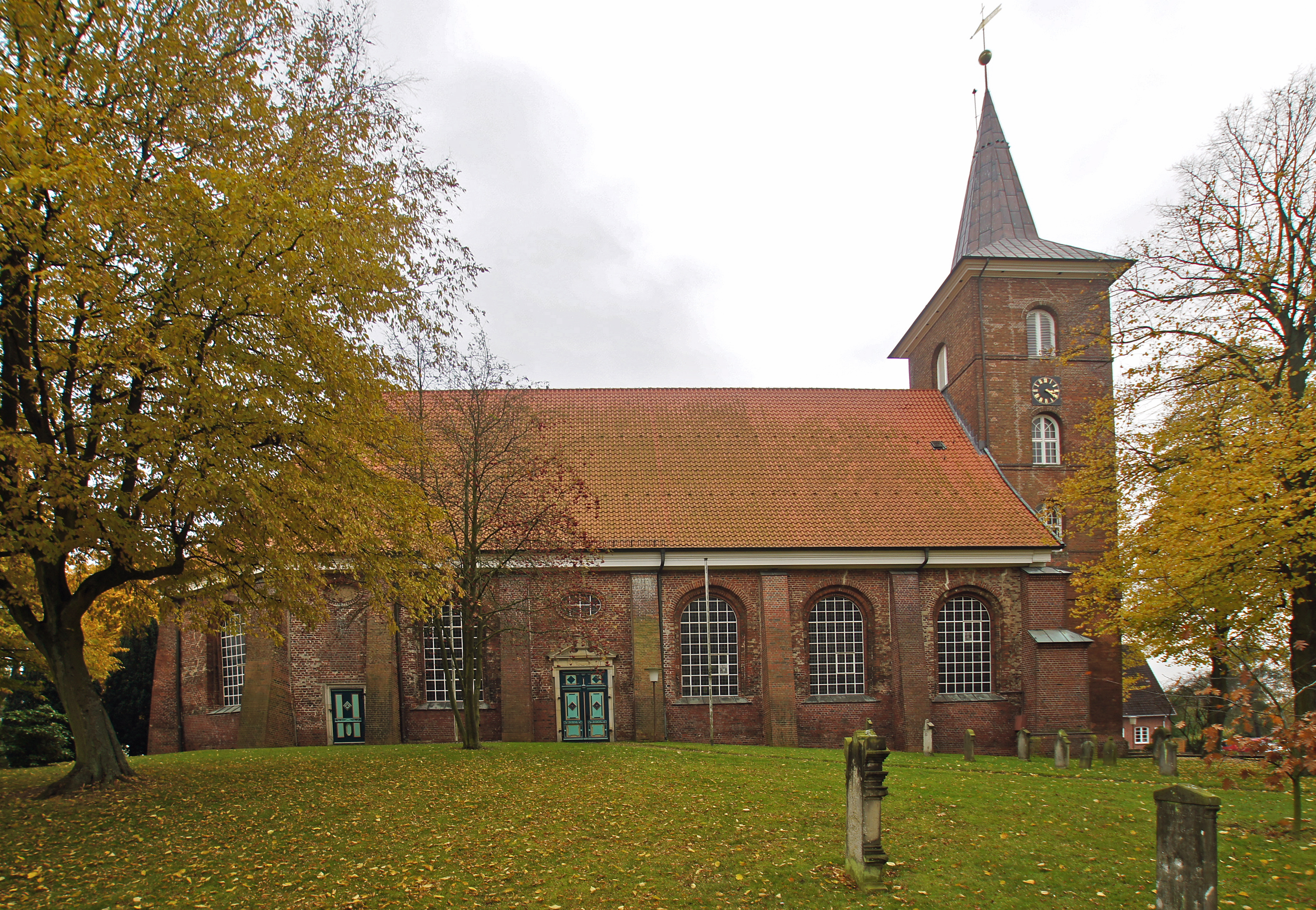 Hamburg (Neuenfelde), Germany: North façade of the Saint Pancras Church